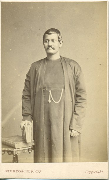 Keshub Chunder Sen (1838–1884), philosopher and social reformer. A photo by the London Stereoscopic Company, c.1870 Source: ebay, Feb. 2008